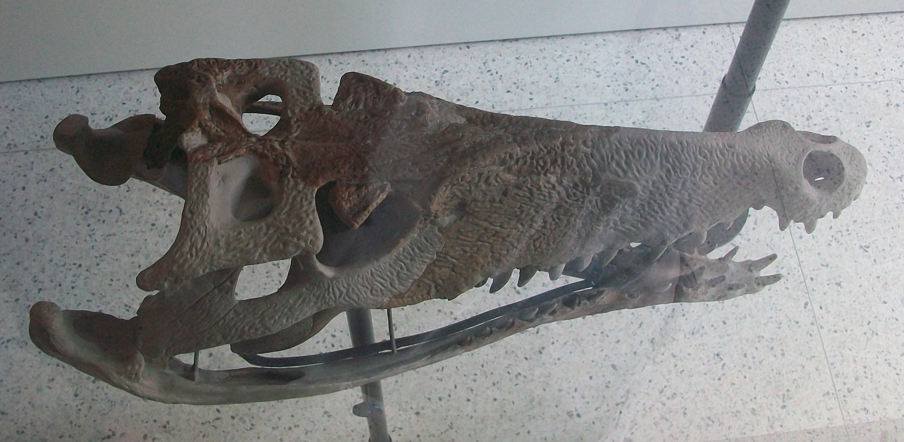 Top view of a cast of the skull of Sebecus icaeorhinus (specimen AMNH 3160) in the American Museum of Natural History.